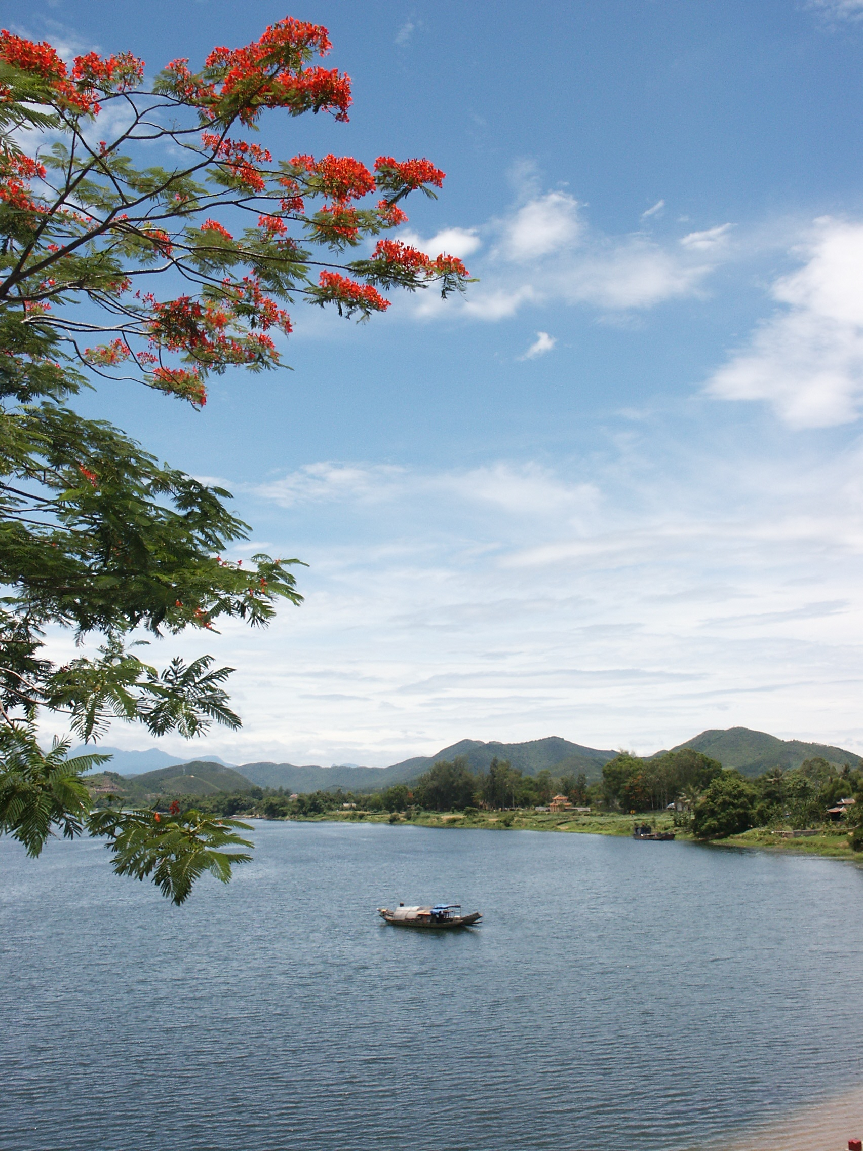 Huong river in Hue city, Vietnam.